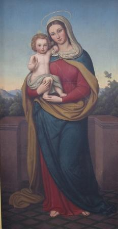 Madona with child